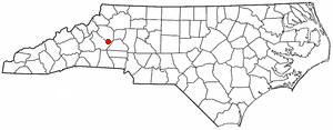 Category:North Carolina Dot Maps